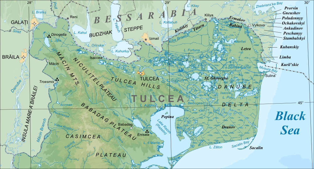 Map of the Tulcea county (Romania) with the river delta of the Danube seen.